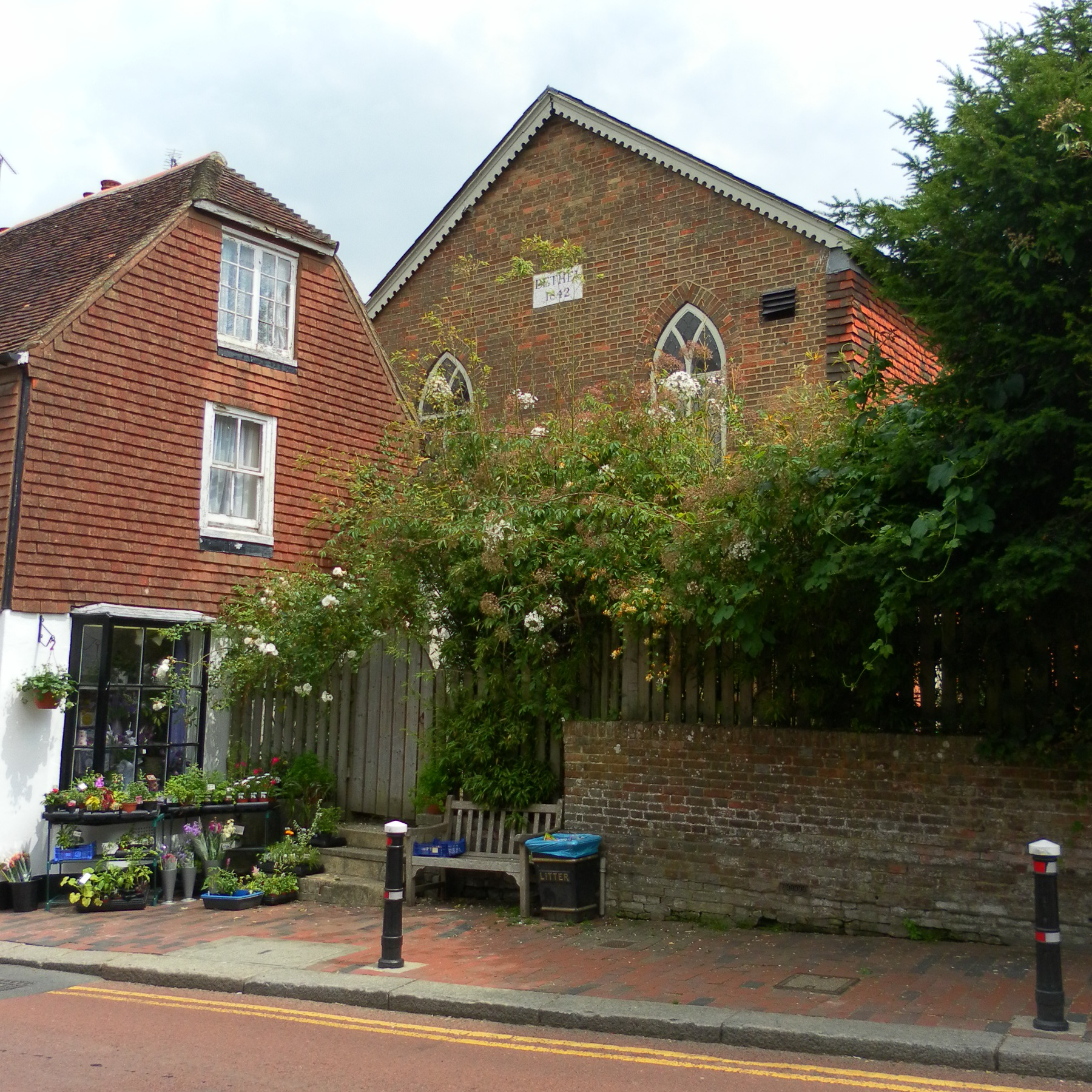 Former Bethel Strict Baptist Chapel, High Street, Robertsbridge, District of Rother, England. Listed at Grade II by English Heritage (NHLE Code 1221399)